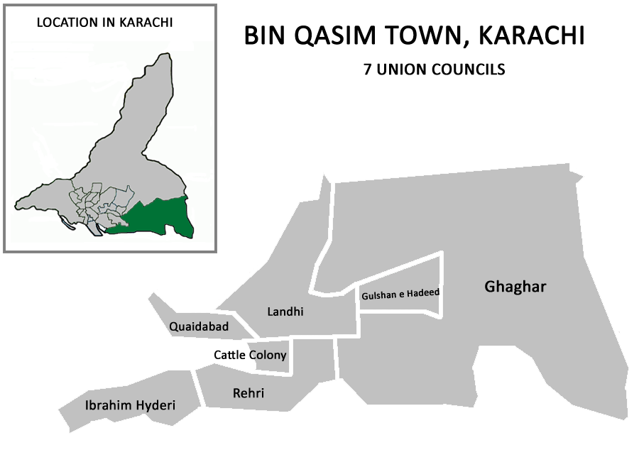 Union Councils of Bin Qasim Town, Karachi